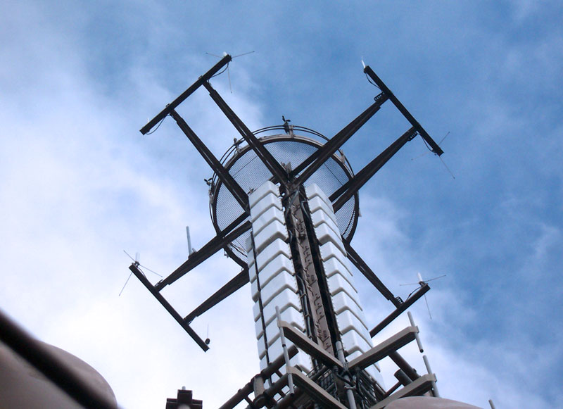 Antennas at the top of Eiffel tower